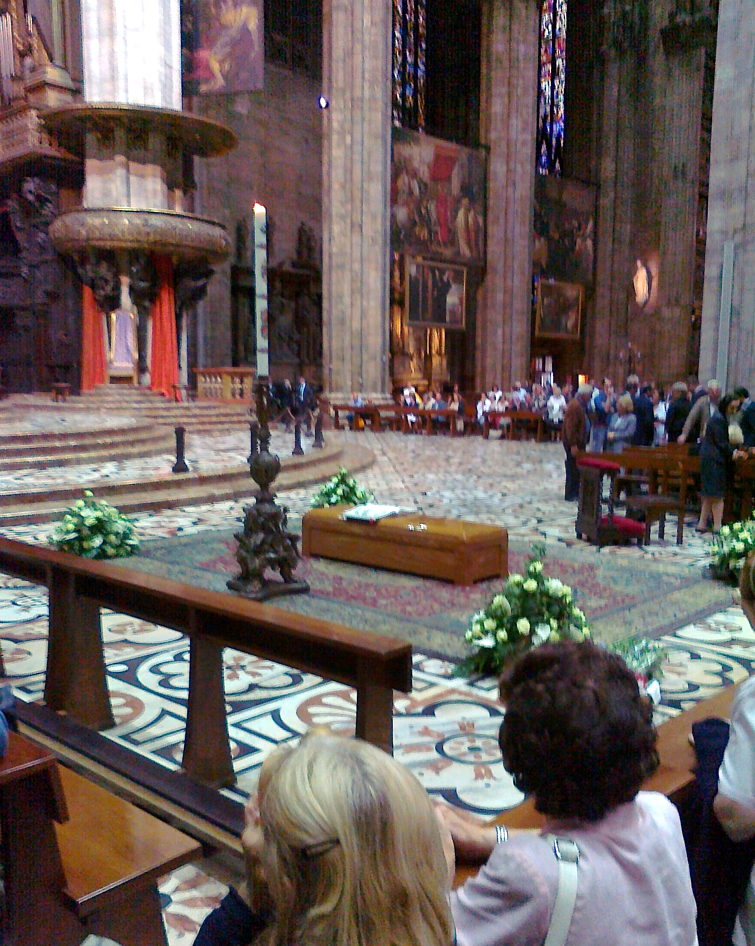 coffin of cardinal Carlo Maria Martini